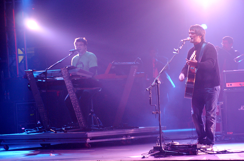 Brazilian group Skank